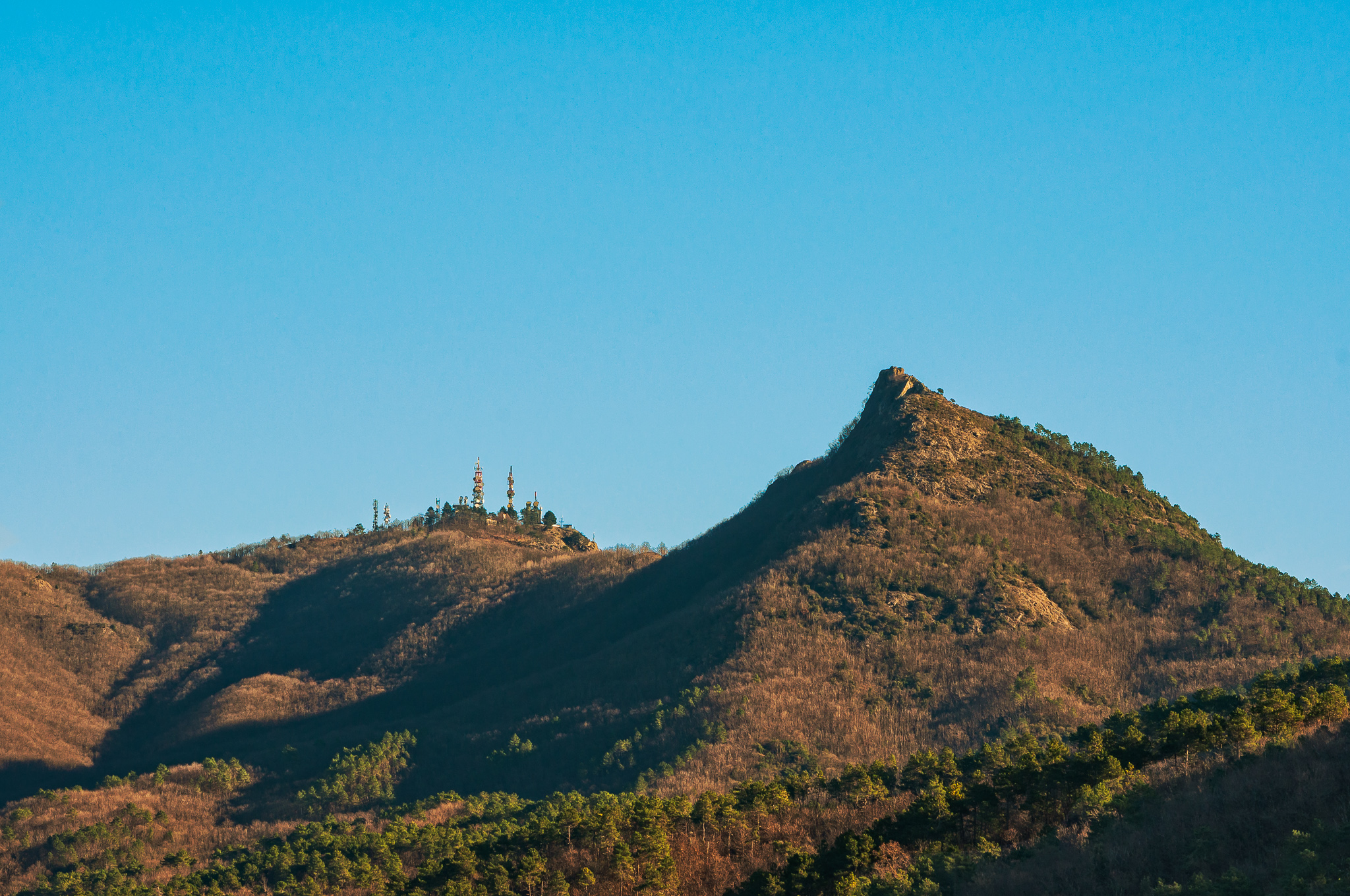 In the foreground the summit of Mount Pietra di Vasca; in the background Mount San Nicolao, topped by communication devices.